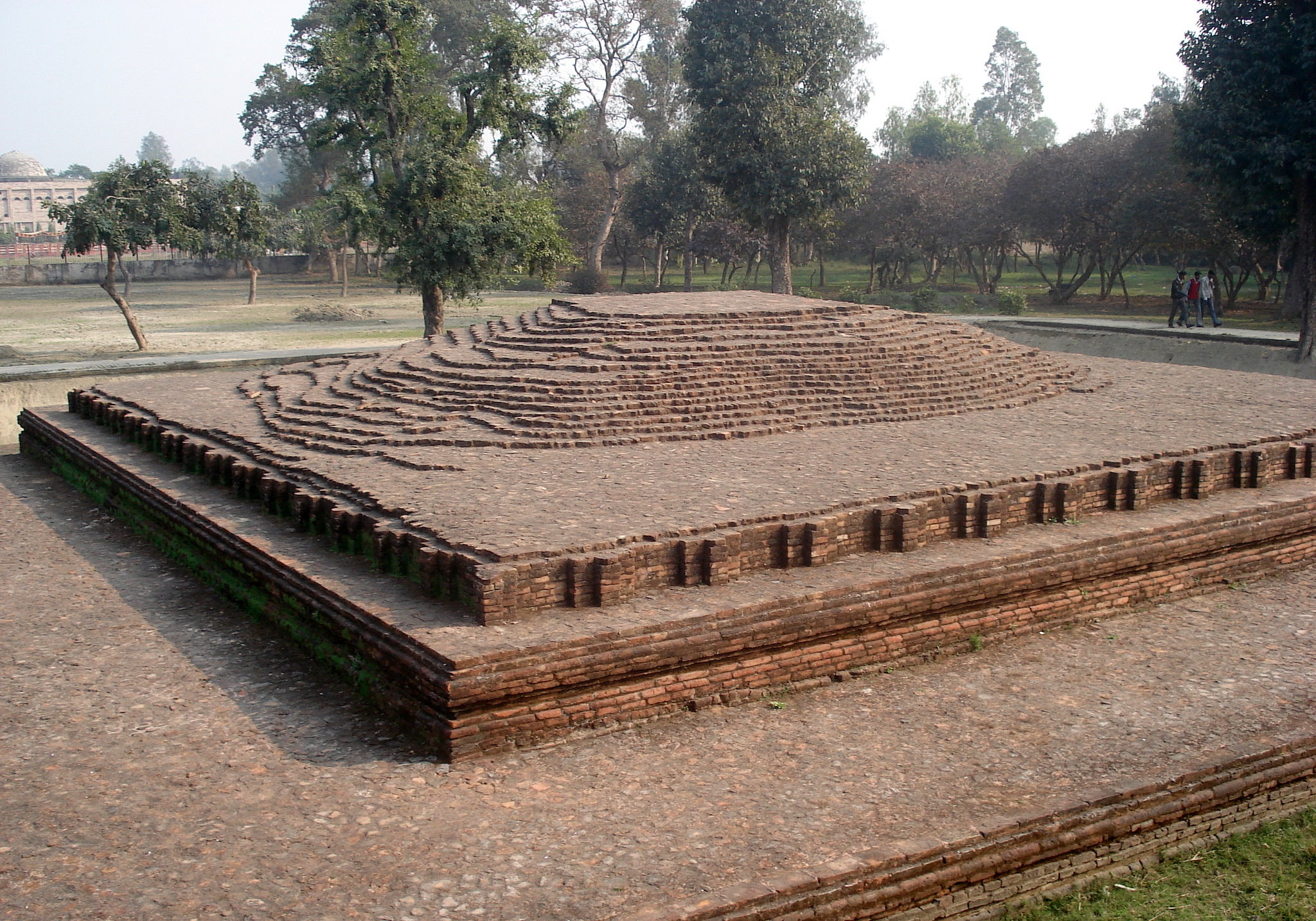 Place where Buddha's body was kept for 1 week, before the cremation took place about 1.6 kilometre from here. He died close to this site, but then his body was moved and put here after he passed away (attained parinibbana).